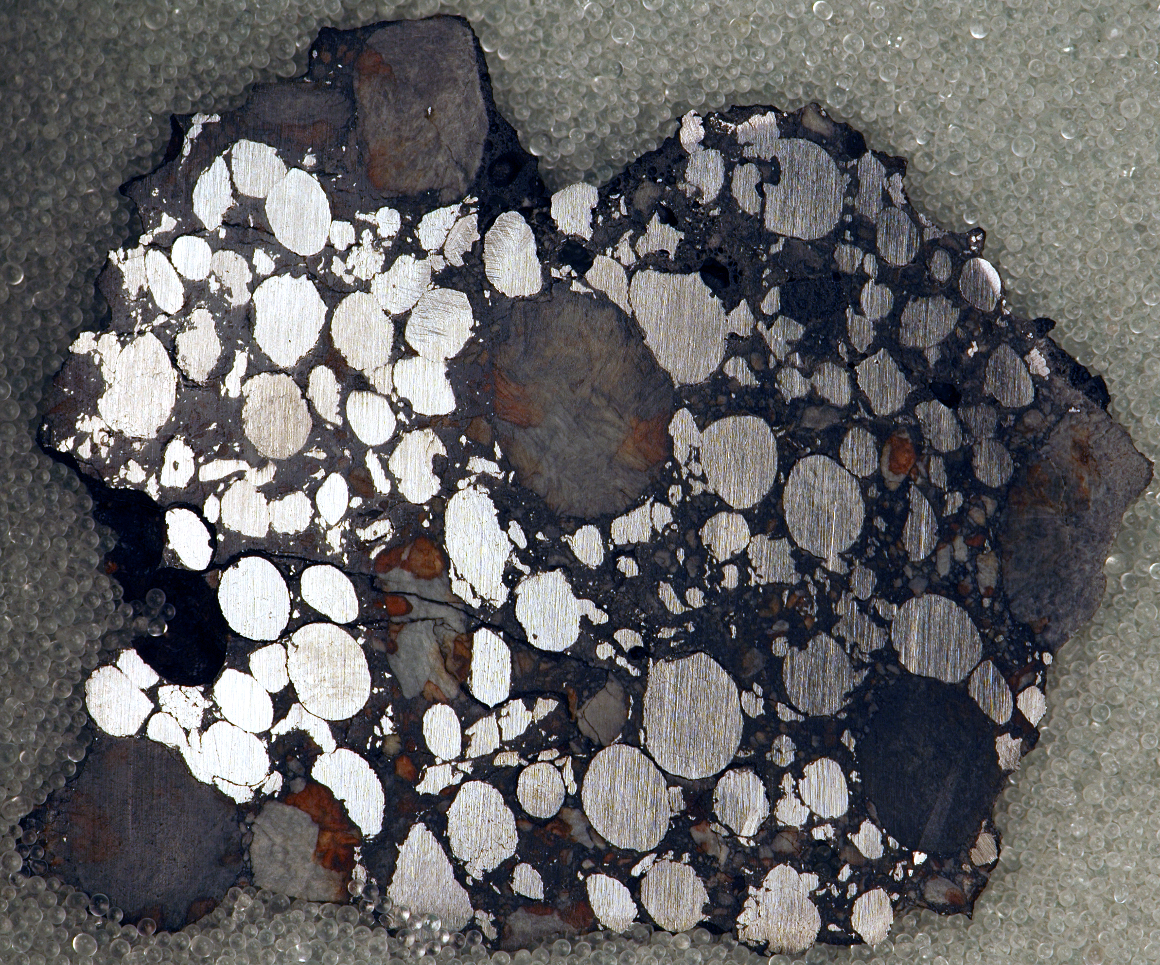 Gujba meteorite, bencubbinite. Texturally, they are chondrites & are naturally dominated by chondrules. However, they are very strange chondrites, because many of the chondrules in bencubbinites are metallic iron. This is a slice (4.6 x 3.8 cm in size) from the Gujba meteorite, a bencubbinite that fell in northeastern Nigeria on 3 April 1984, but has only been subjected to scientific study since the early 2000s. More info and refs at Flickr link.